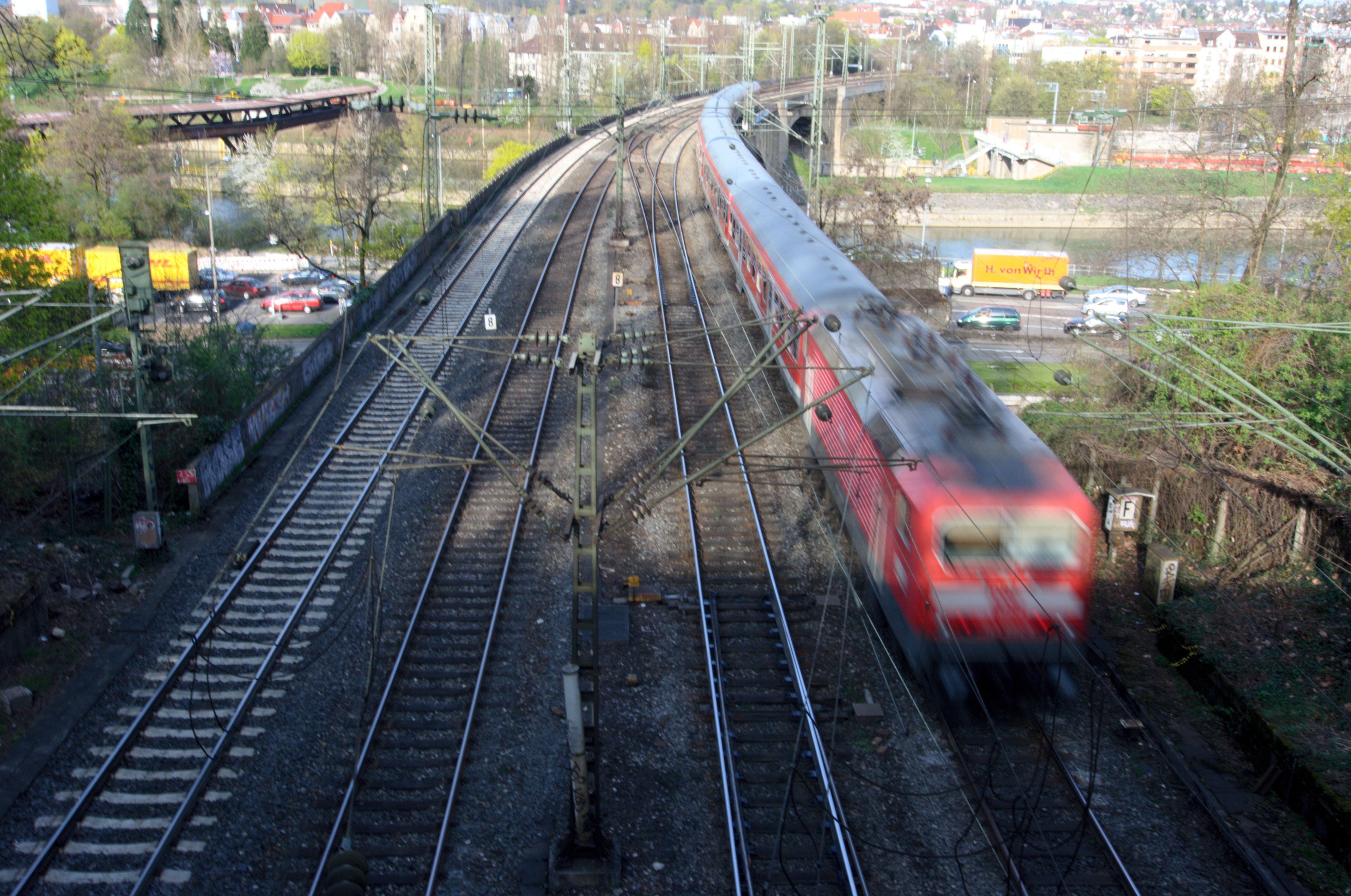 View from the portal of the Rosensteintunnel in Stuttgart. Train just left tunnel, heading for Bad Cannstatt